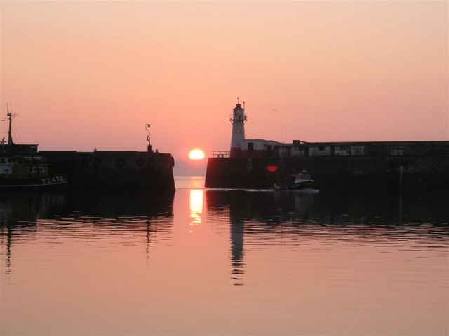 Home by sunrise A fishing boat enters Newlyn Harbour just as the sun rises. Taken from the new jetty in the harbour.